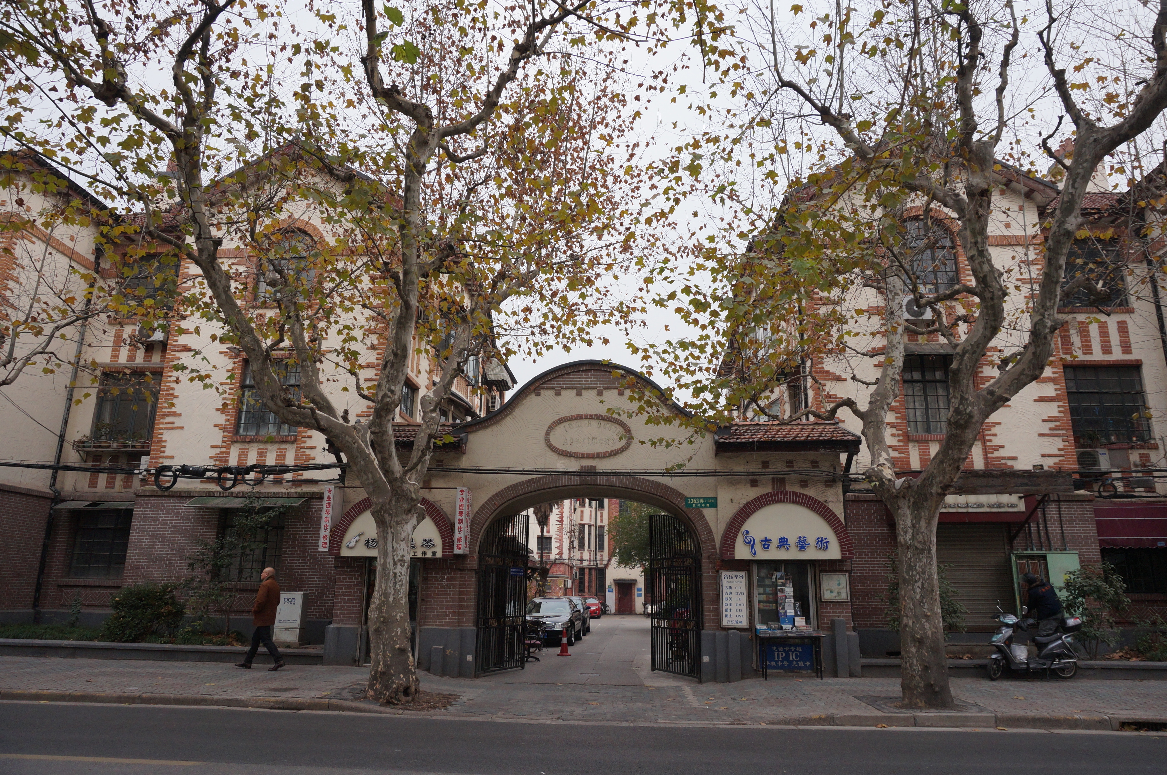 克莱门公寓大门